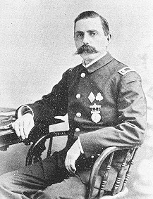 Photograph of United States Army officer and Medal of Honor recipient George E. Albee taken prior to his death in 1918.